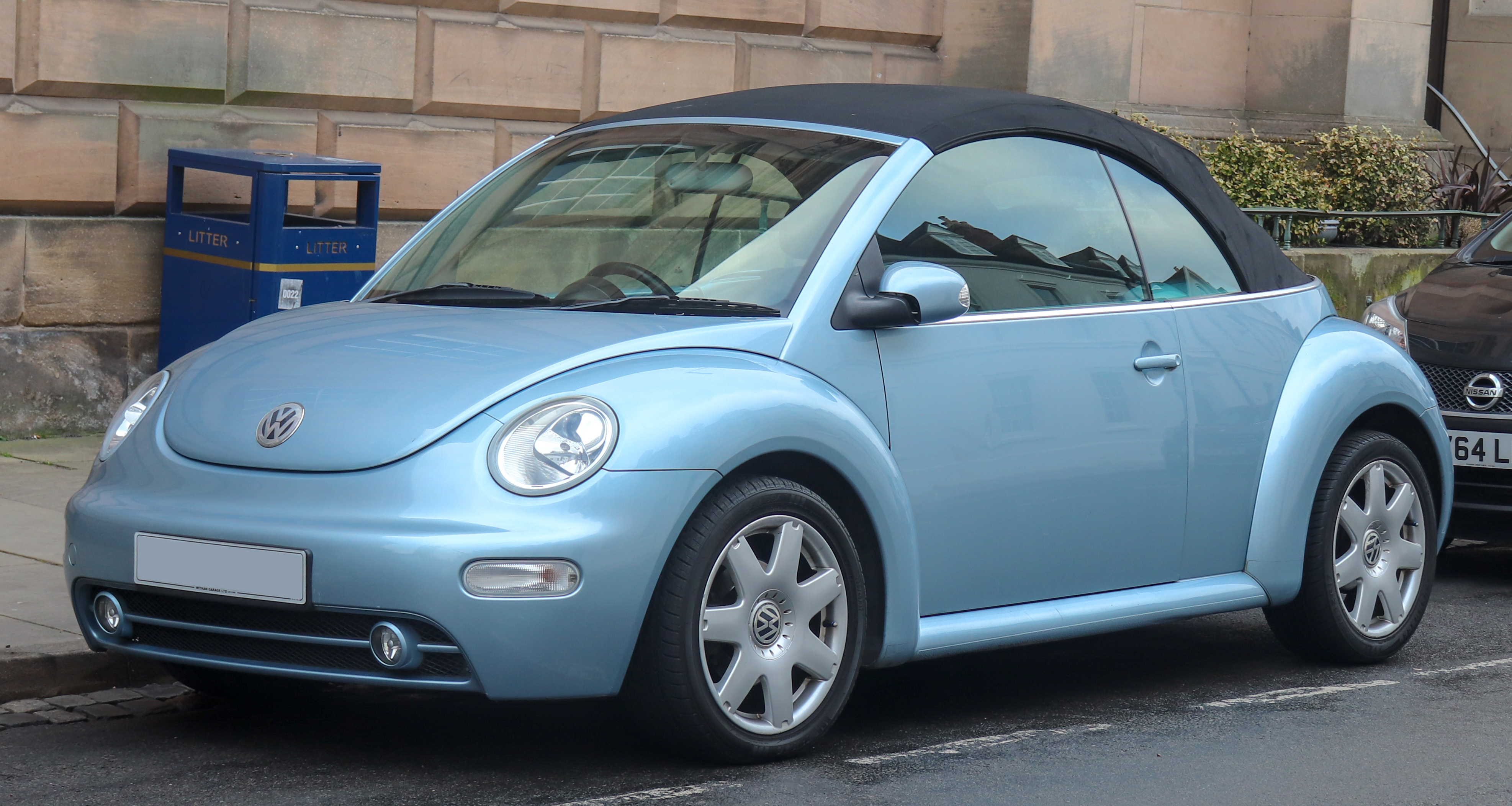 2004 Volkswagen Beetle Cabriolet Tiptronic 2.0 Front Taken in Warwick